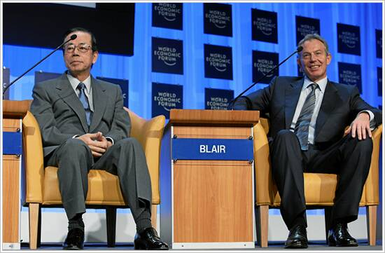 World Economic Forum Annual Meeting Davos 2008